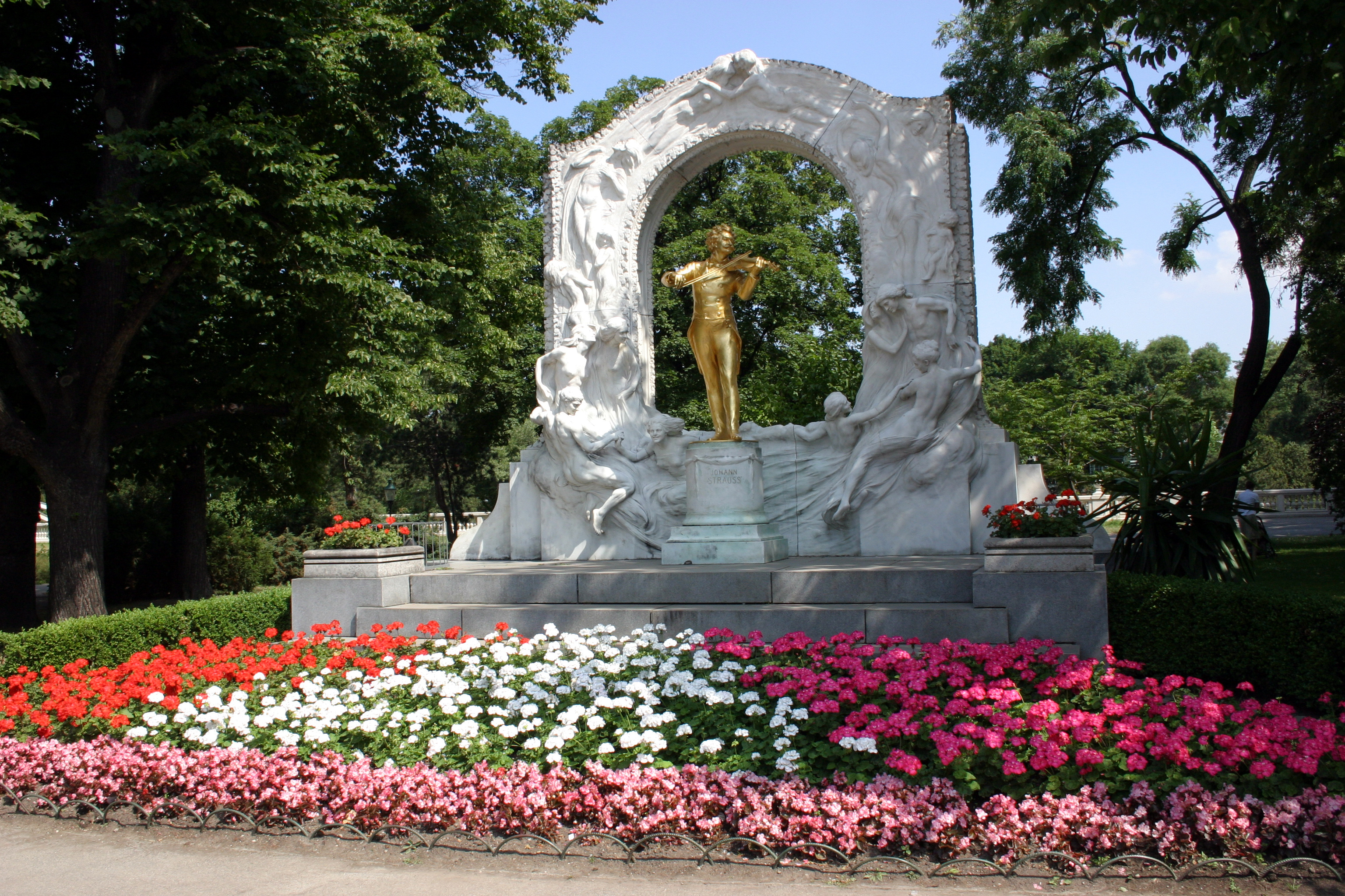 Stadtpark, Vienna